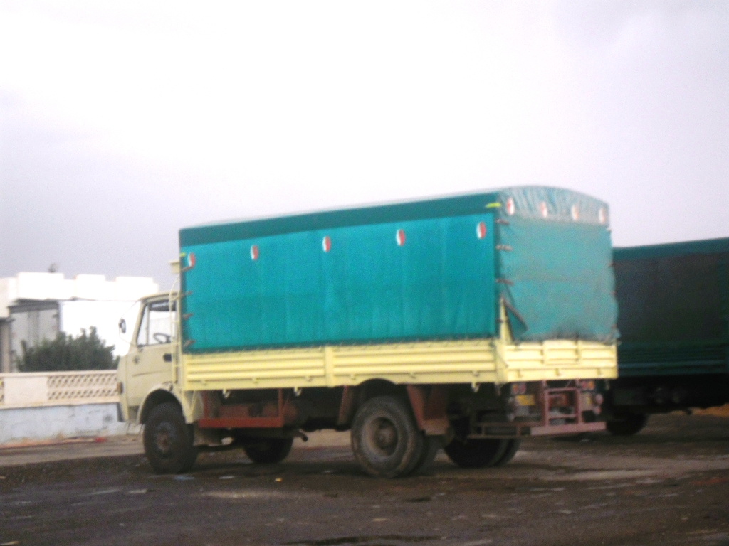 SNVI K120 truck